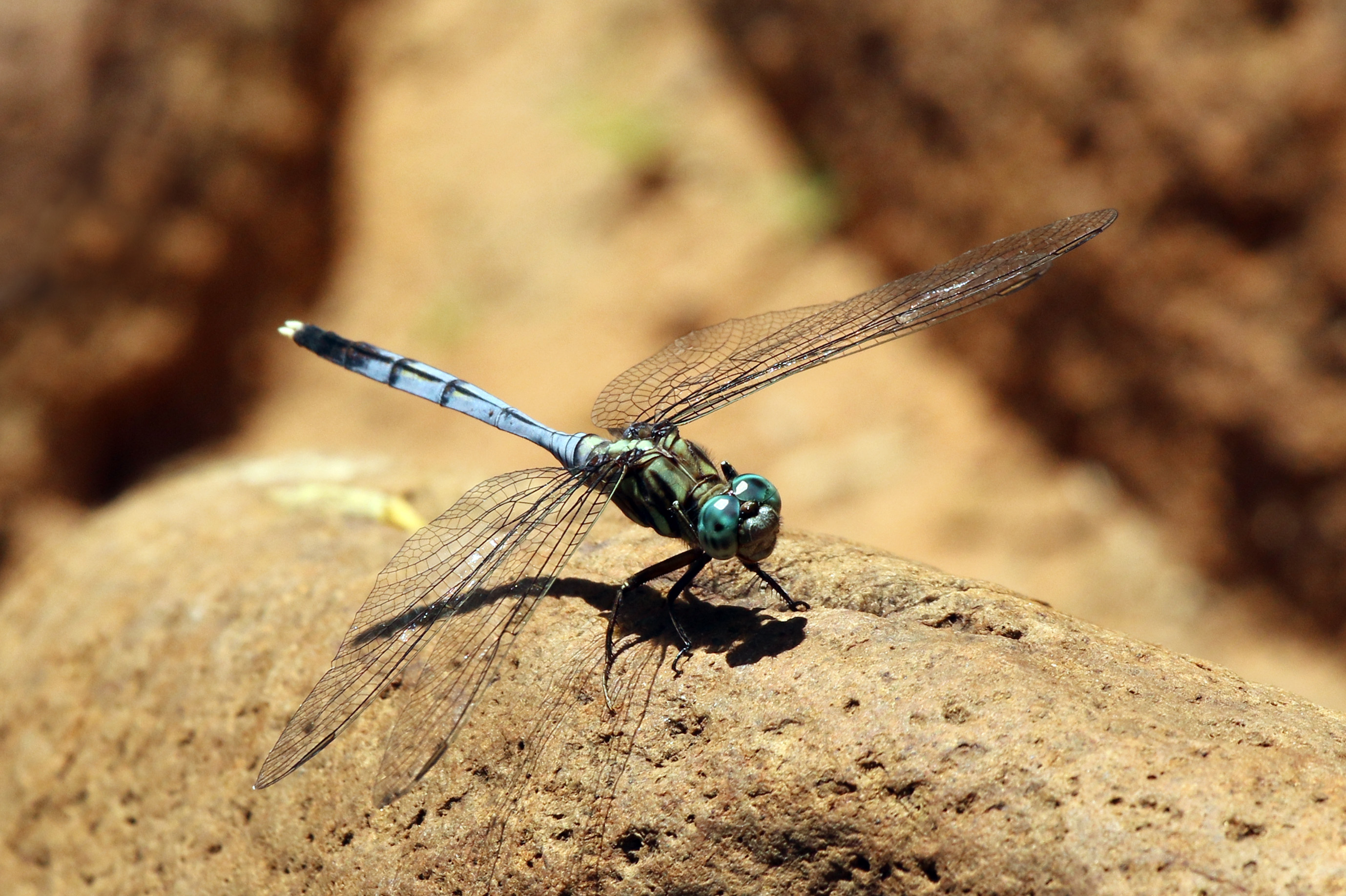 Julia skimmer dragonfly (Orthetrum julia) immature male, uMkhuze Wetland Park, KwaZulu Natal, South Africa